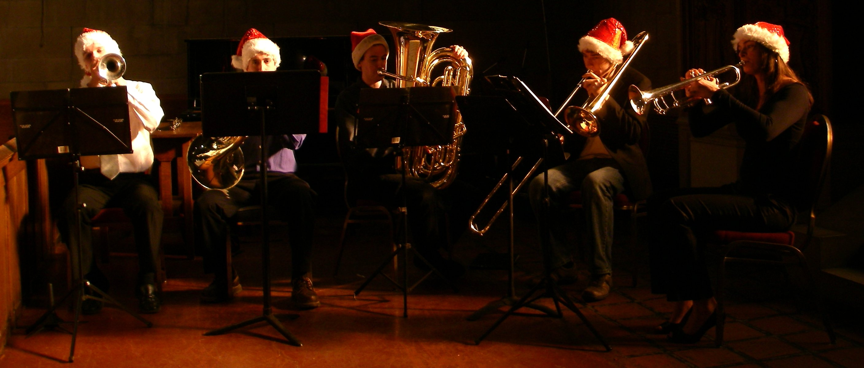 Skule Brass Quintet with sunlight streaming into Knox Chapel, taken during Christmas concert performance led by Malcolm McGrath